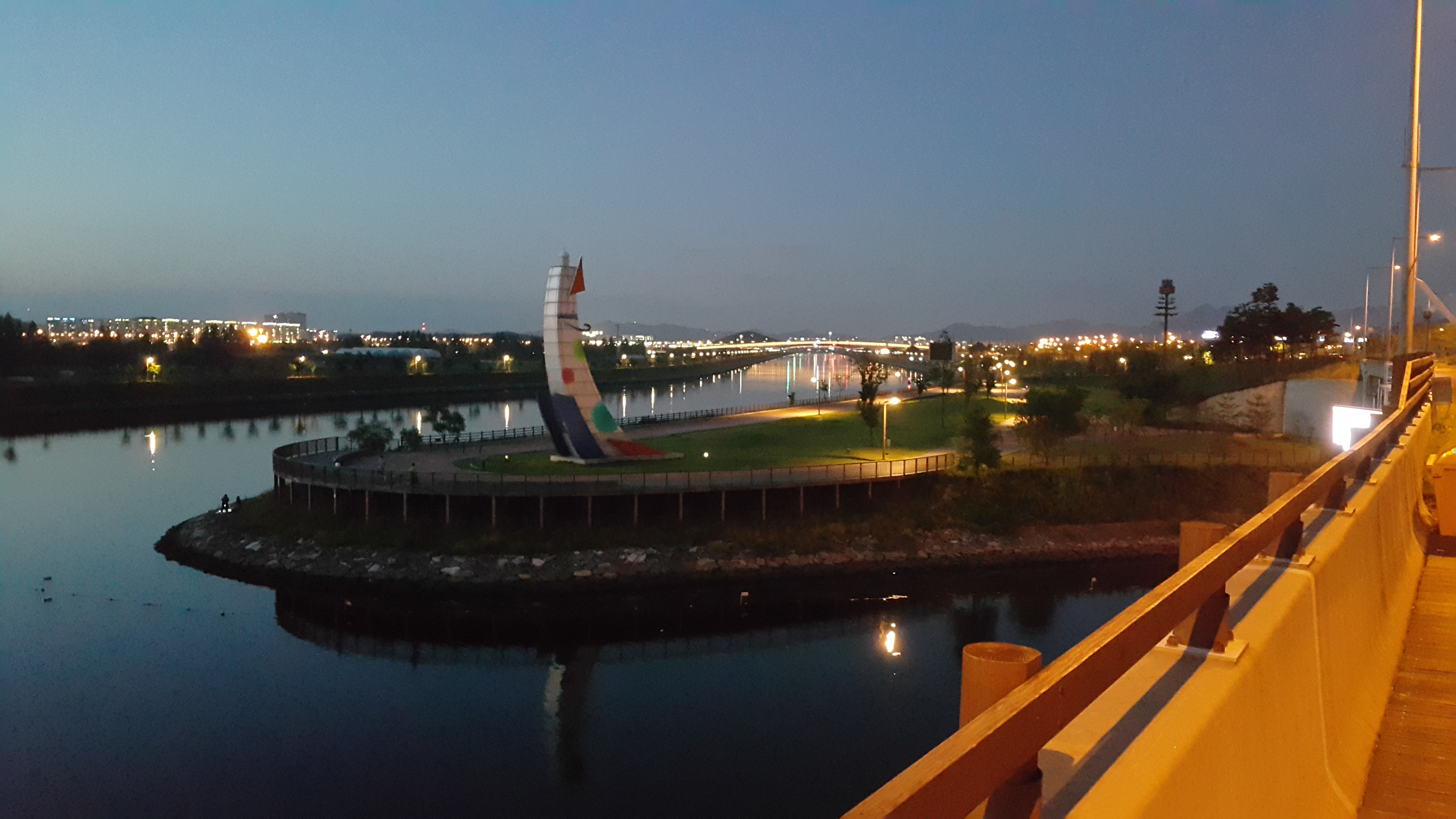 Night view of park